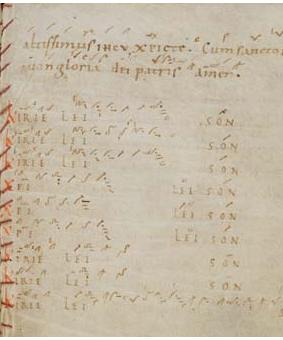 Notker Psalter, Kyrie